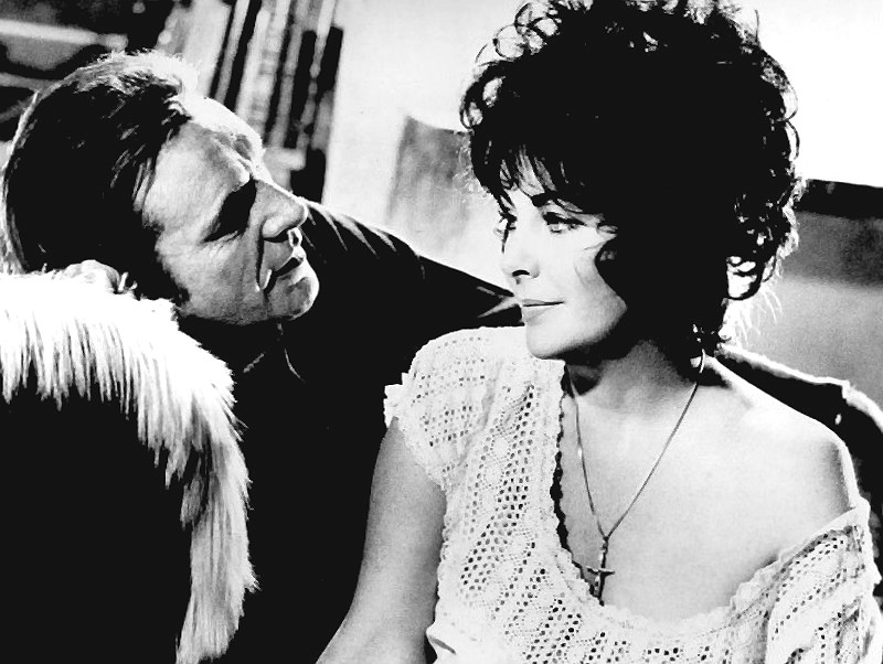 Photo of Richard Burton and Elizabeth Taylor from the 1973 ABC made for television movie Divorce His. In 1972, Richard Burton and Elizabeth Taylor signed with ABC-TV to make the film. vai The film was produced for ABC-TV and was first seen in the US in the US on ABC-TV via There are no copyright marks on the photo.